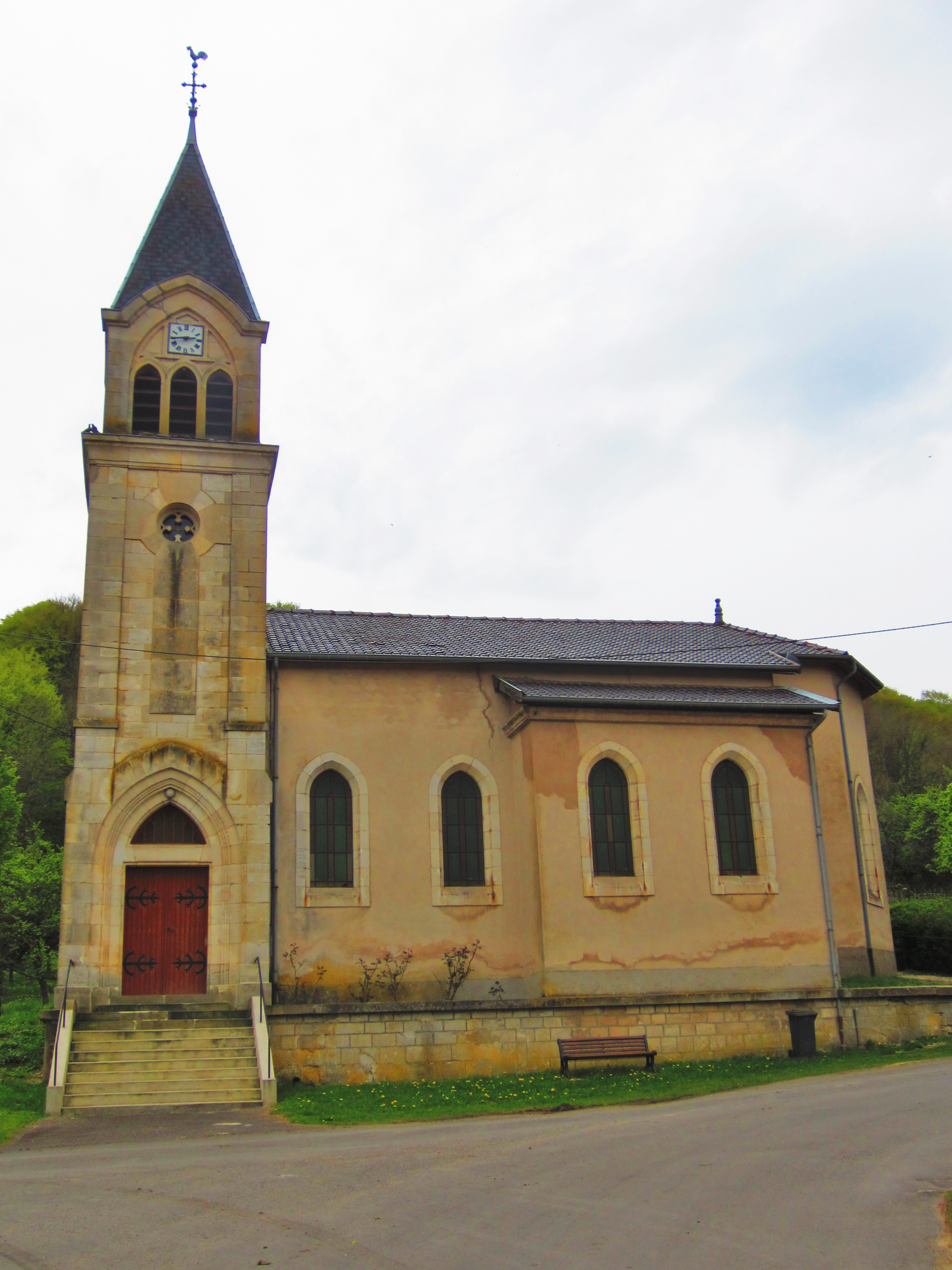 Tresauvaux church